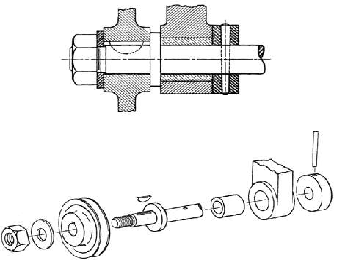 llenngueta woodruff